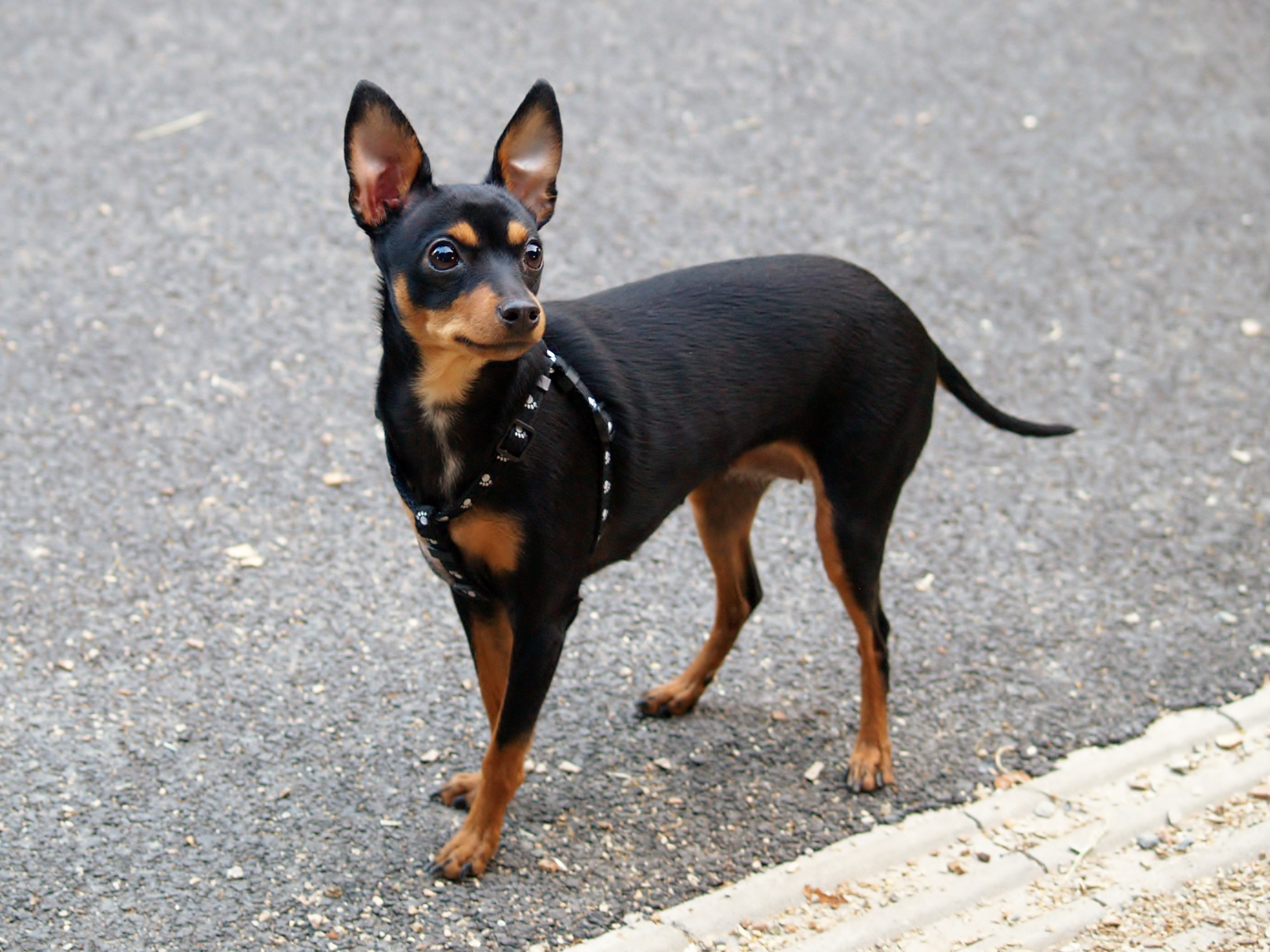 Prague Ratter (Pražský krysařík) dog, 1 year old